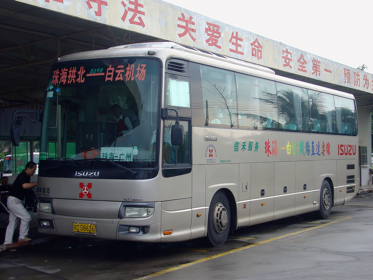 Baiyunport Airport Express taken in Gongbei, Zhuhai(Guangdong province, China).